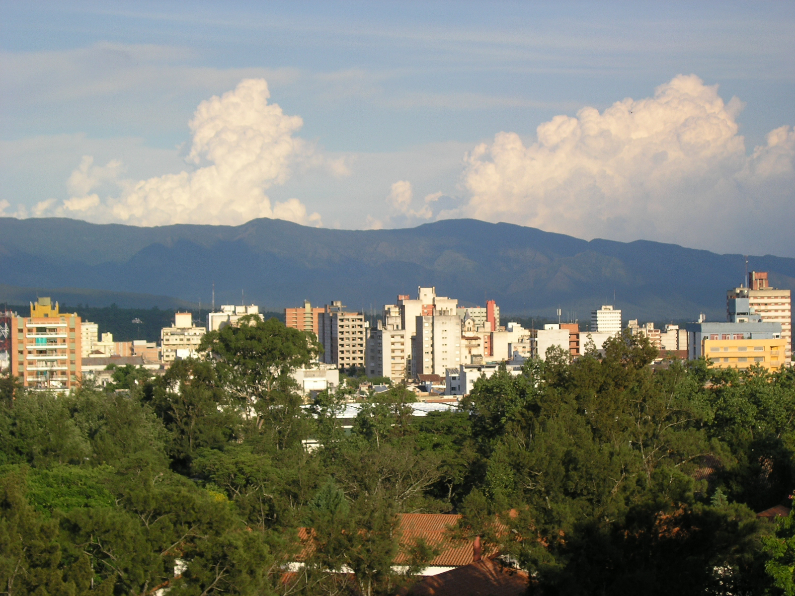 City of San Salvador de Jujuy (Argentina), view from Ciudad de Nieva.